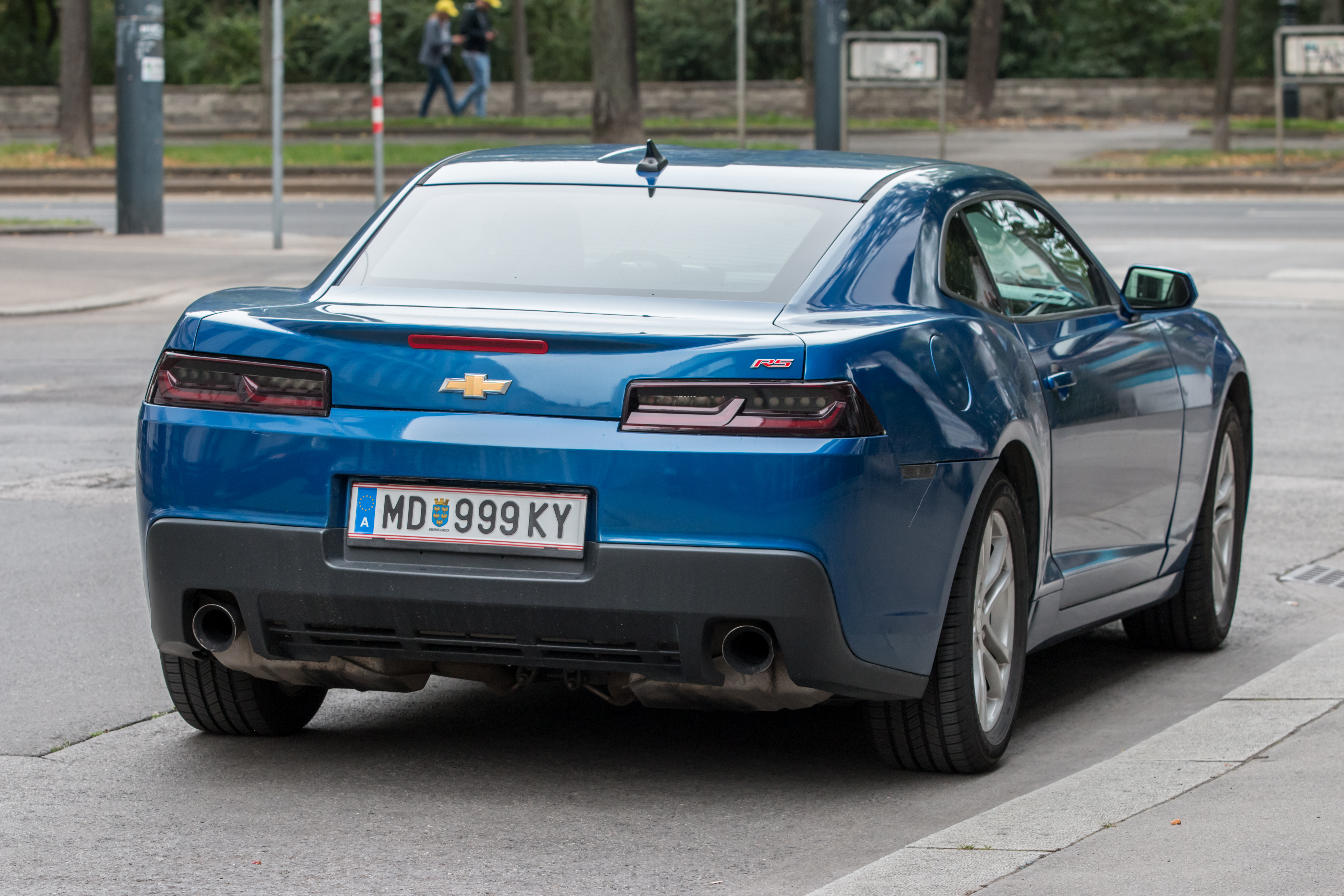 Chevrolet Camaro RS (5th gen, 2015)